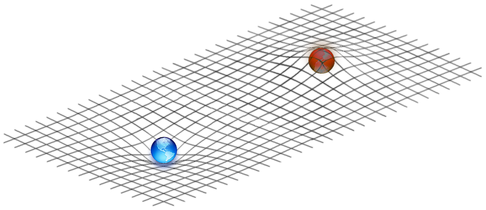 2D rubber-sheet model of a curved spacetime according to two coupled field equations used in some bimetric gravity theories like the Janus cosmological model. Positive mass (blue) and negative mass (red) are located on two opposite "sides" of the same 4D hypersurface. Each species creates a positive curvature in its own sector, but it also induces a negative curvature in the opposite sector. Negative mass is therefore invisible and its gravitational interaction (negative curvature with repulsive gravitational potential) is relative, felt from the opposite sector. In this case, like masses would attract and unlike masses would repel.